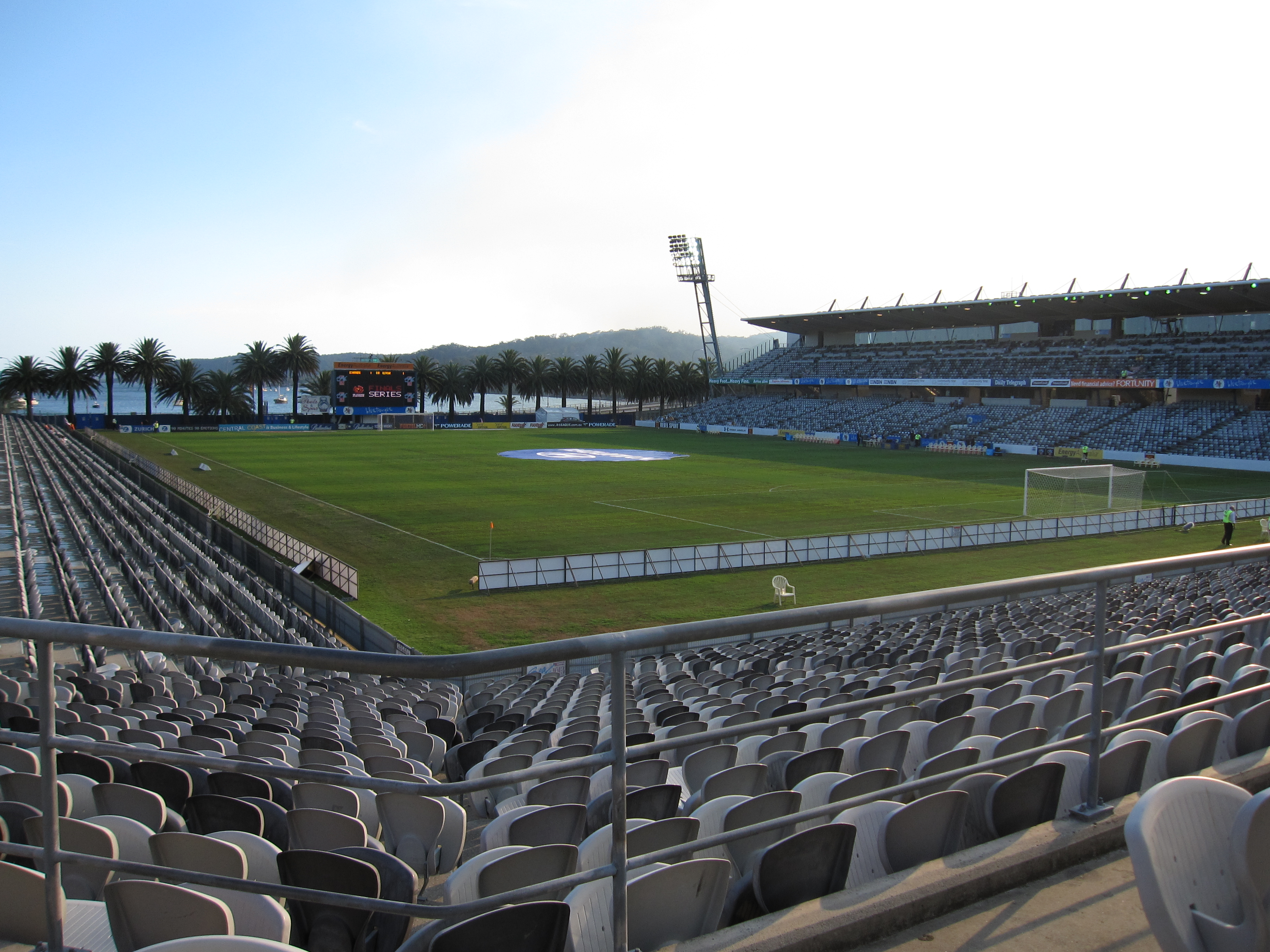 Bluetongue CentralCoast Stadium at Gosford 6/Feb/2009